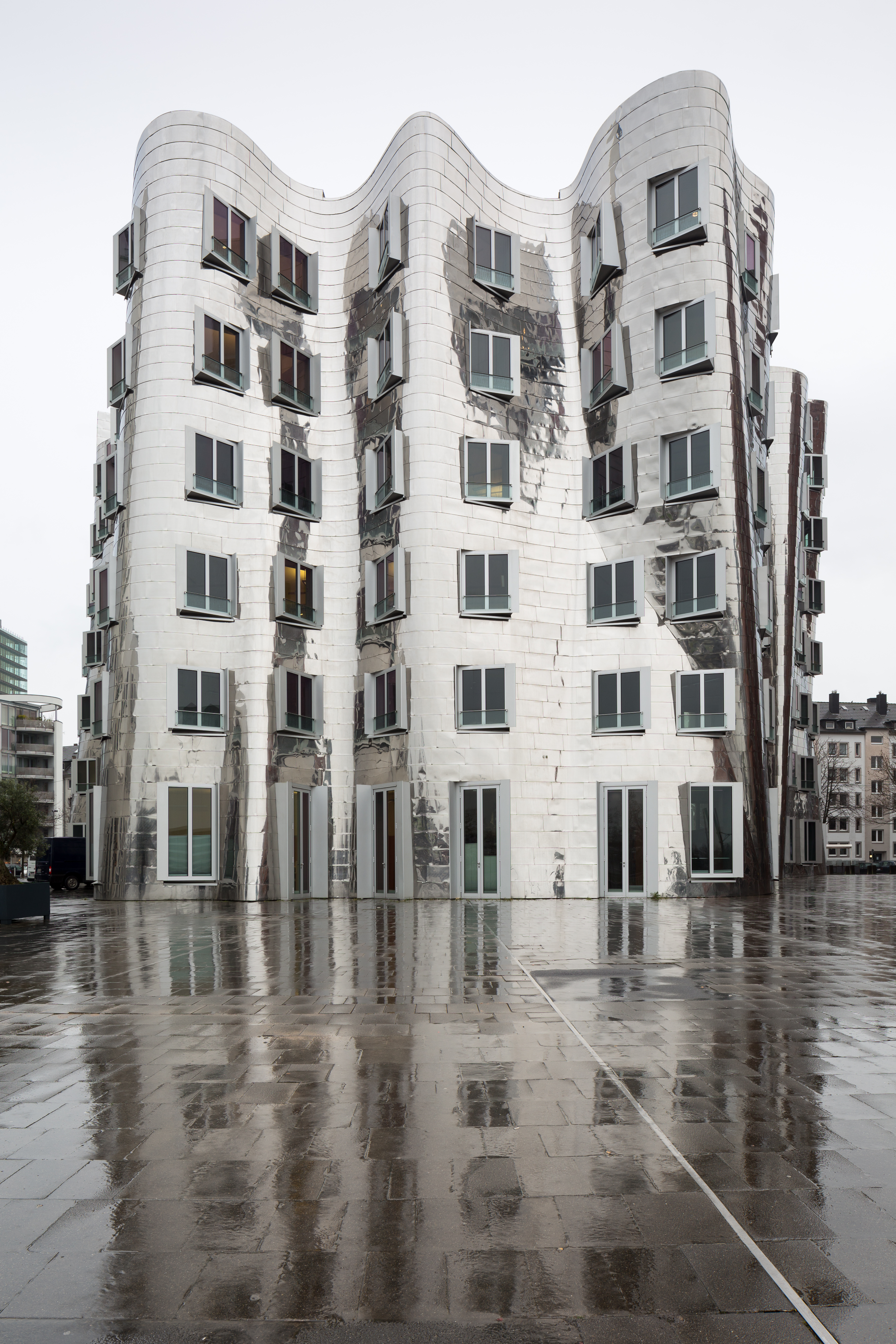 Buildings designed by Canadian architect Frank O. Gehry located at Medienhafen area in Unterbilk quarter of Duesseldorf, Germany. The image shows the building Neuer Zollhof no. 2.